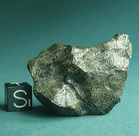 34.60g individual of the Camel Donga (#?) eucrite meteorite